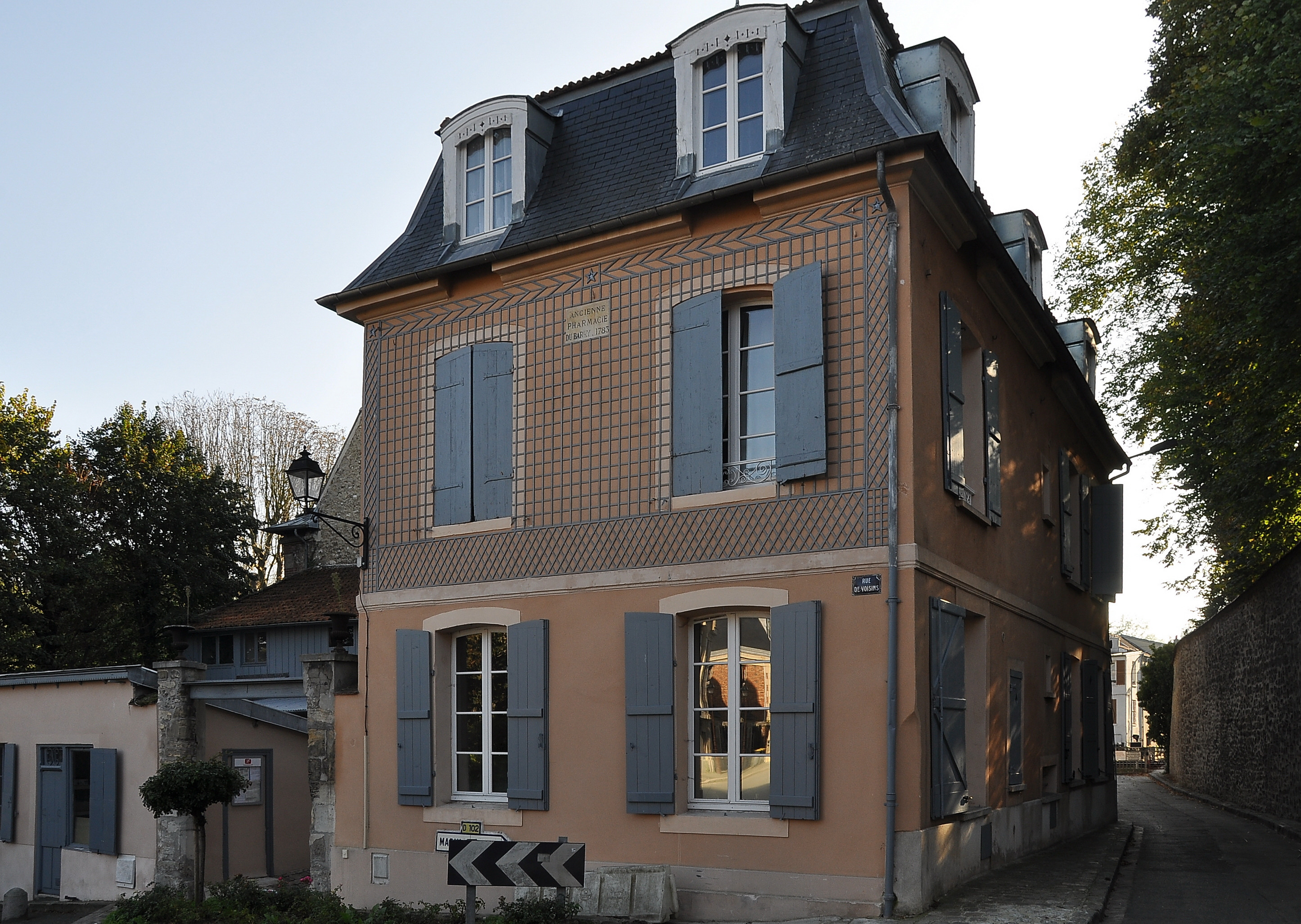 Pharmacy of Barry located in 17 street rue des Voisins in front of the street leading to the château de Madame du Barry in Louveciennes, Yvelines department, France. Built in 1783, at the end of the XIXth century, Guichard is a grocer there.